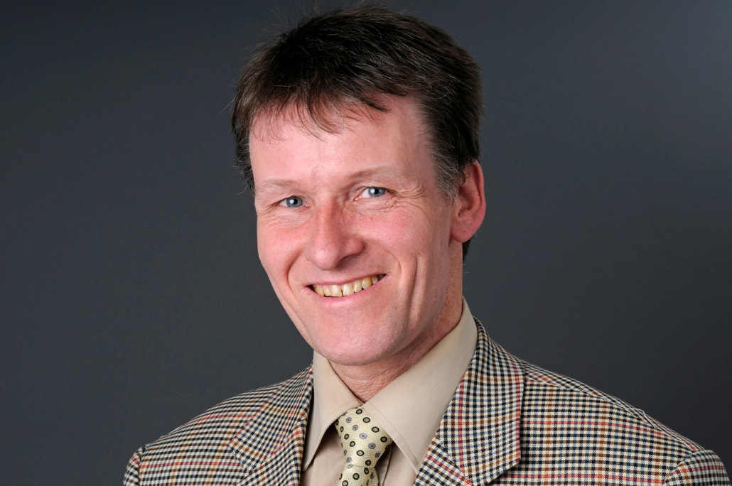 Urs Meisterhans, Managing Partner at Sinitus.